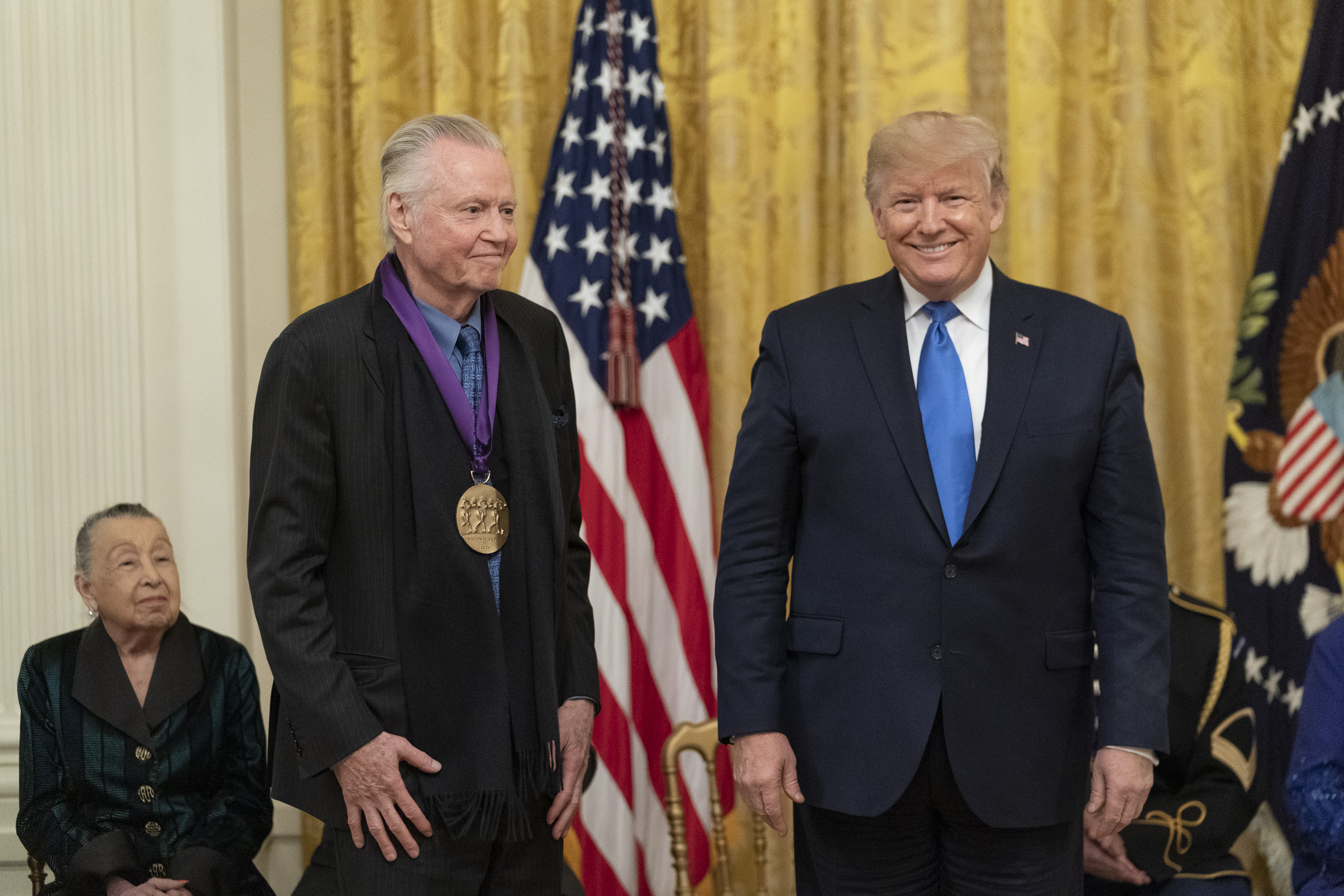 President Donald J. Trump participates in the National Medal of Arts and National Humanities Medal presentations in the East Room of the White House on Thursday, Nov. 21, 2019. (Official White House photo by Tia Dufour)